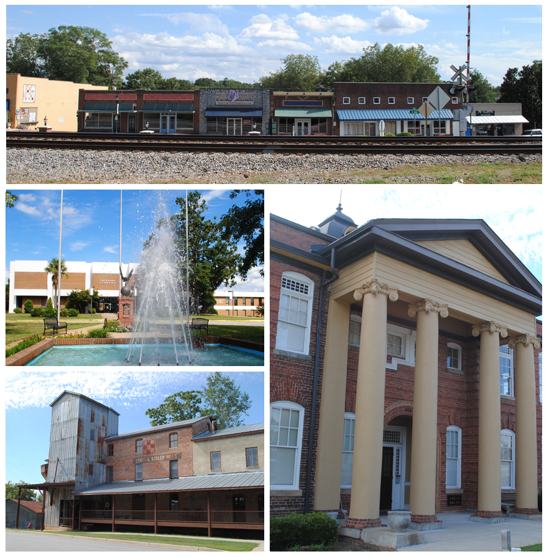 Photos I took around Central, SC and placed in a montage